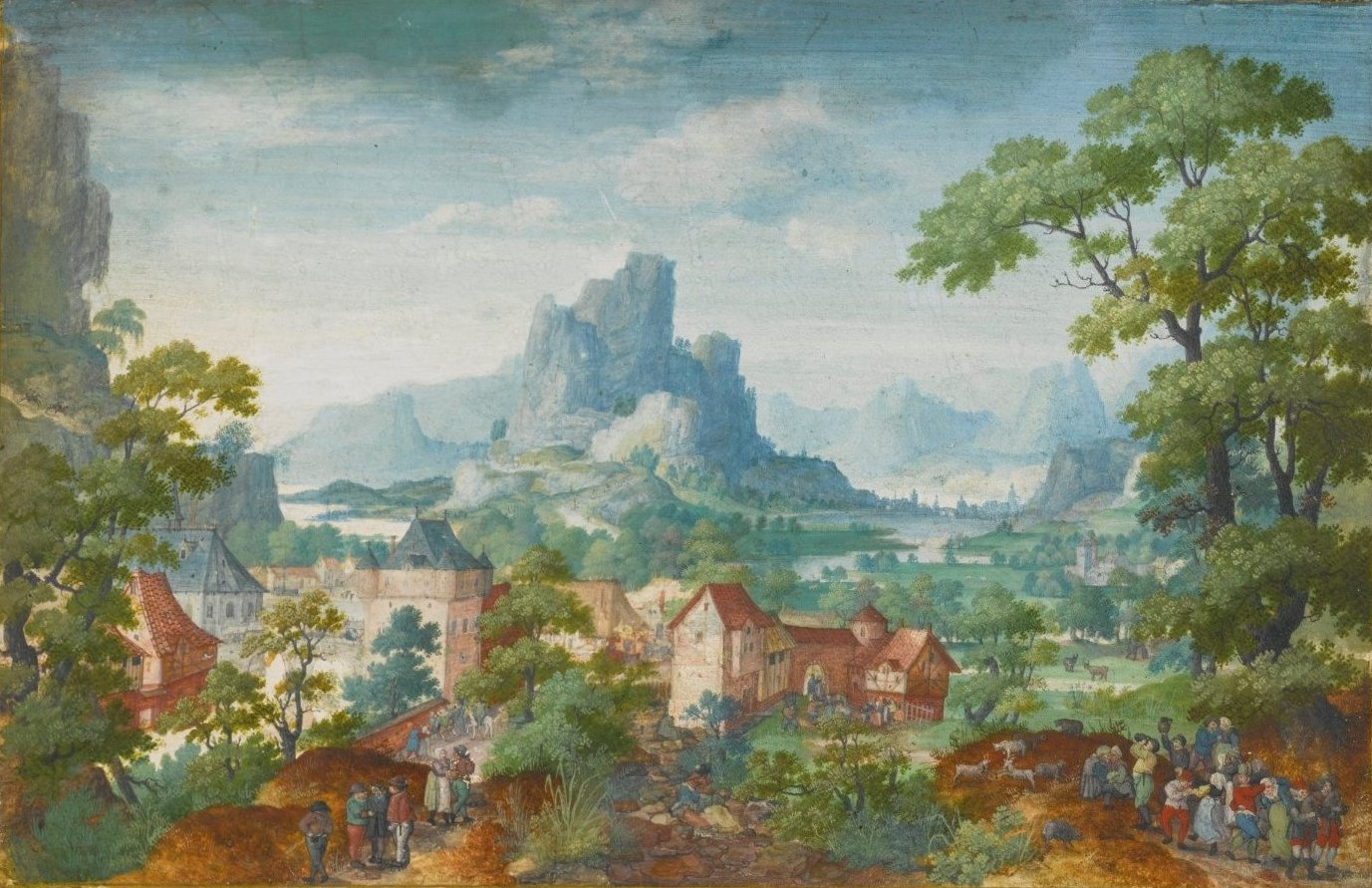 An Extensive Landscape with Peasants Merrymaking by Frans Boels, 1591, gouache on vellum with gold highlights, mounted on panel, 13.8 by 21.1 cm